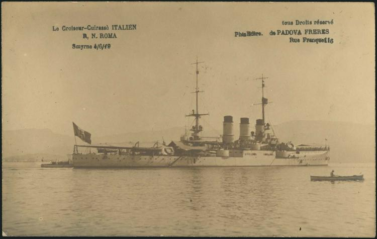 La Croiseur-Cuirasse Italien Roma, Smyrne, 4 June 1919